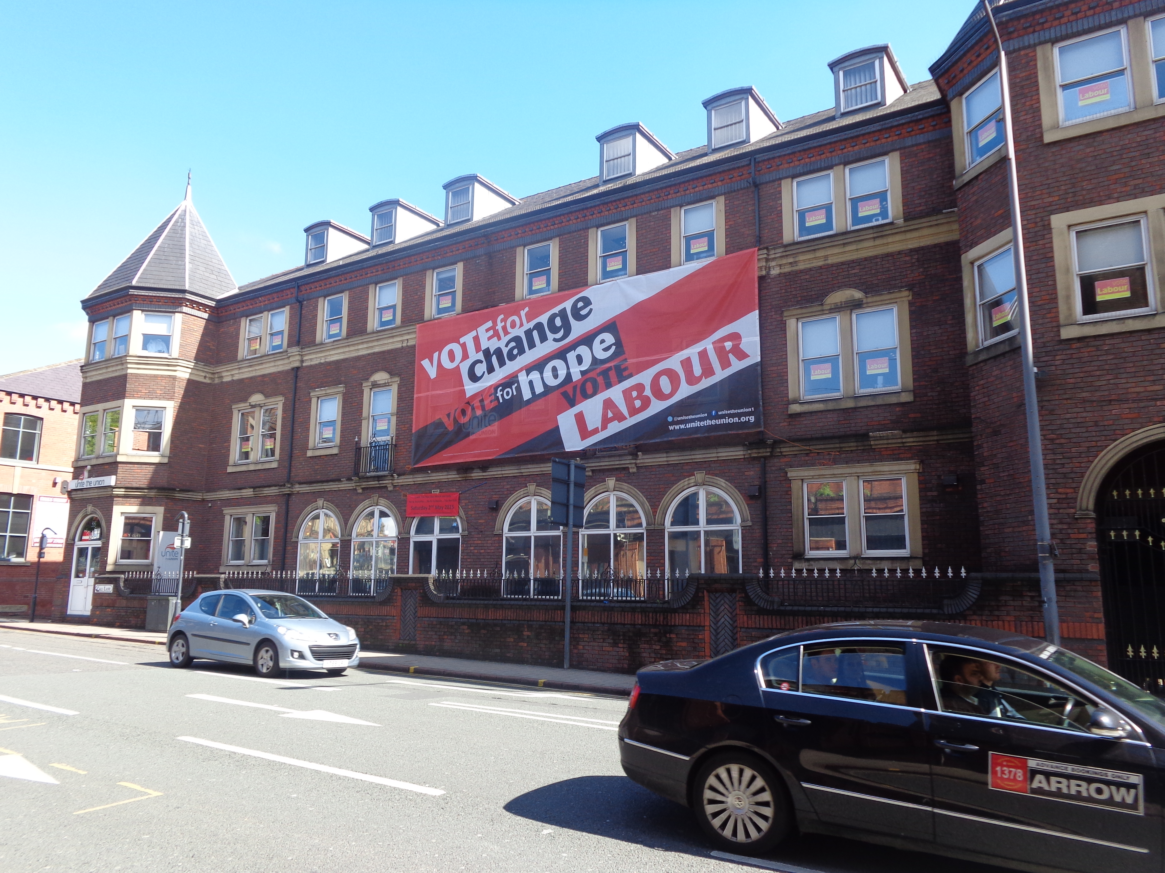 Unite the Union decked out for the 2015 General Election showing their allegiances to the Labour Party on Call Lane, Leeds, West Yorkshire. Taken on the afternoon of Sunday the 3rd of May 2015 (the election is on the 7th).